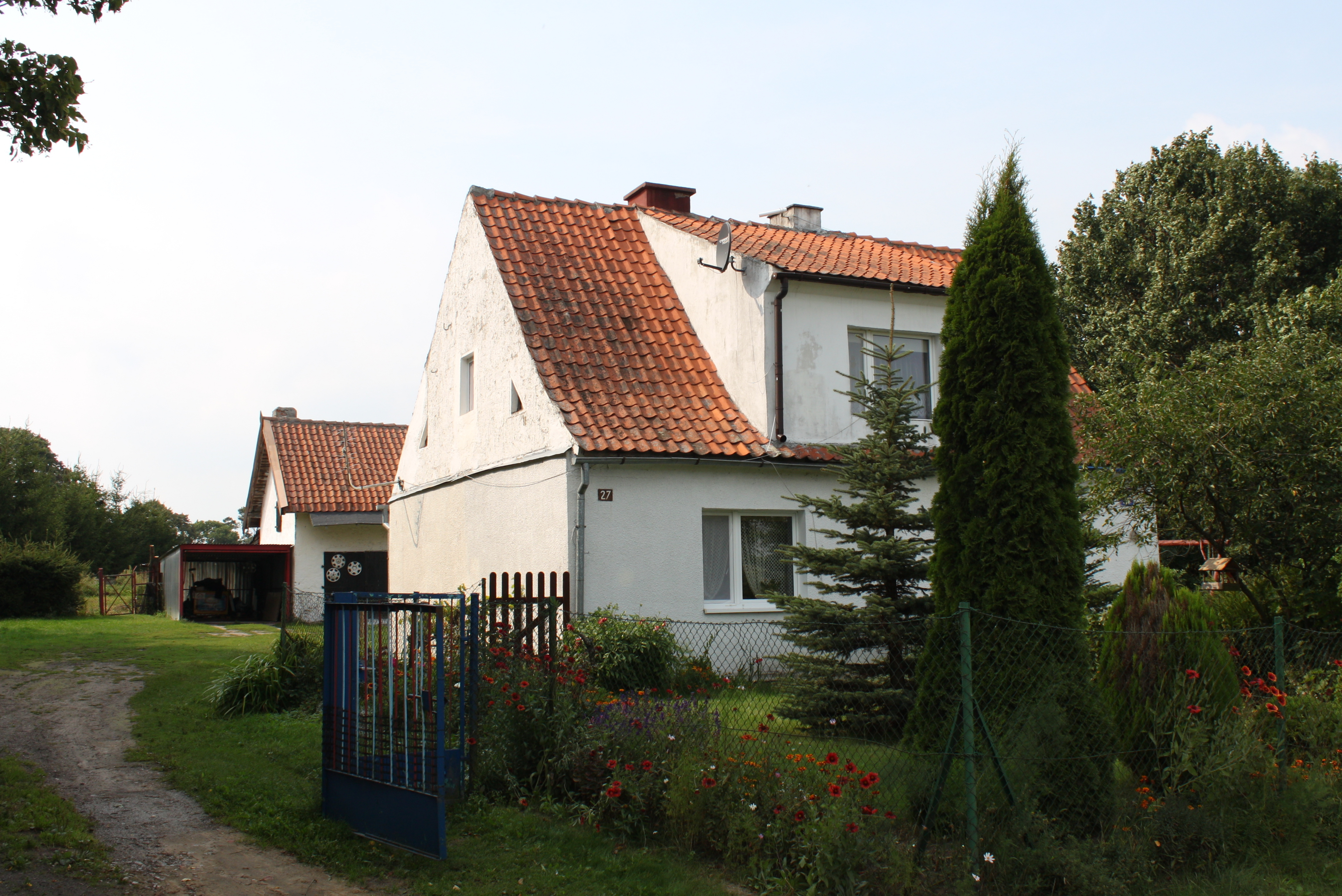 House in Kałęczyn.